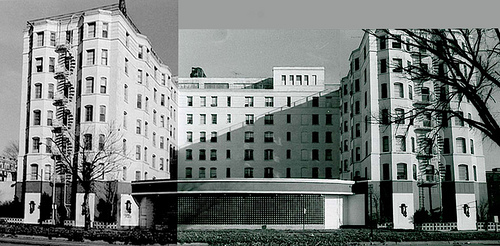 Former Buckingham Hotel, St. Louis, Missouri